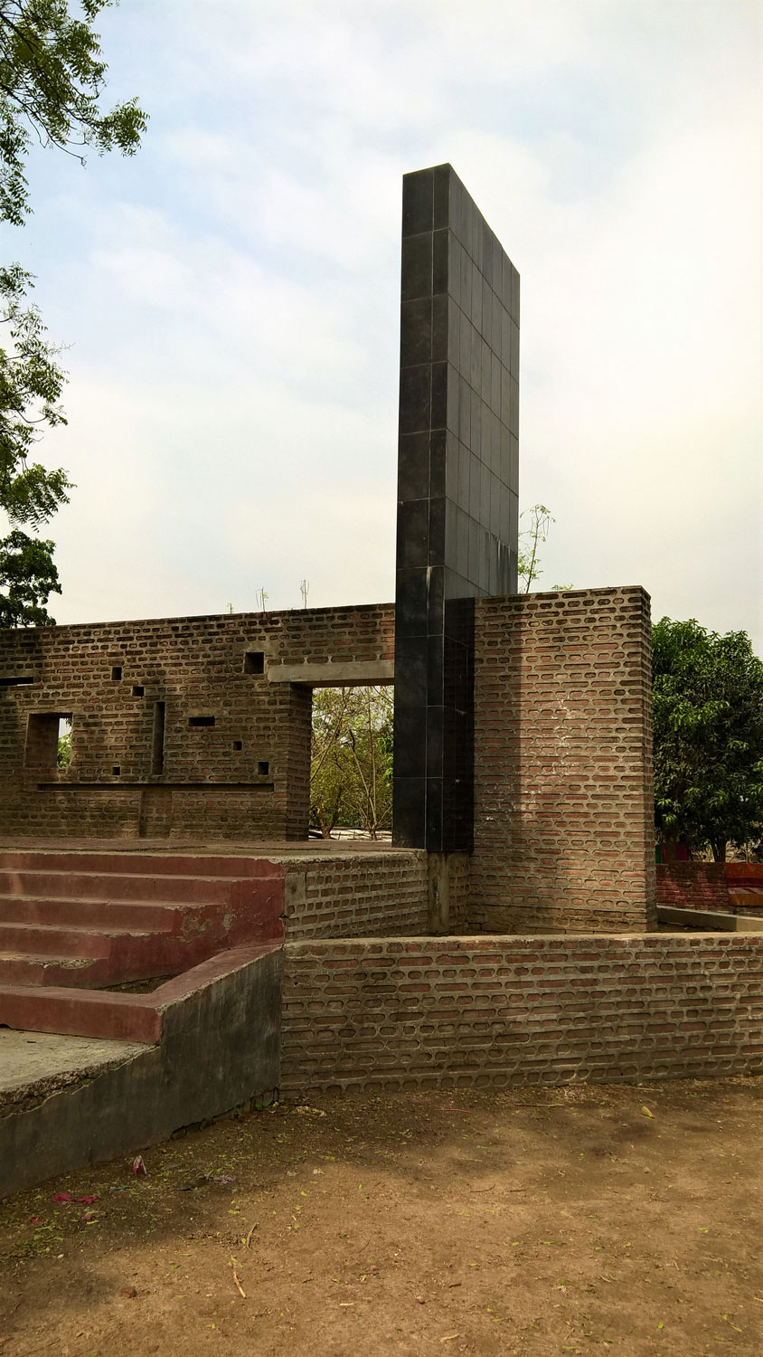 Monument for the martyrs in 1971 war. Here is the mass grave of war heroes from rohanpur region.